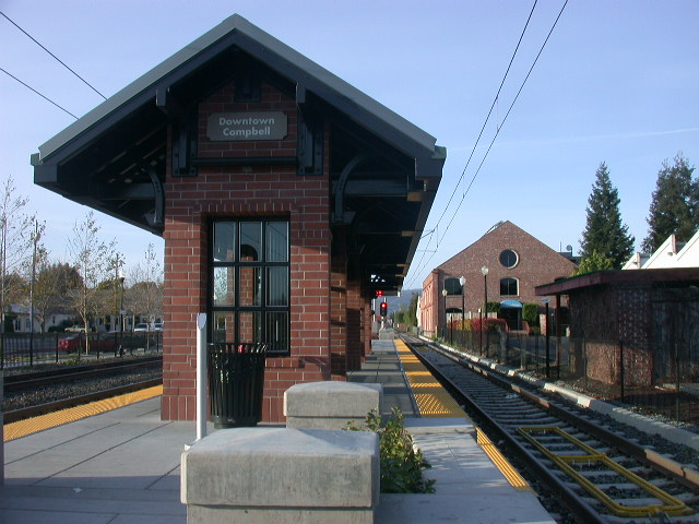 Photo taken by brianvdb. Photo of the Downtown Campbell station of the Santa Clara VTA light rail system - looking southwest along the platform.